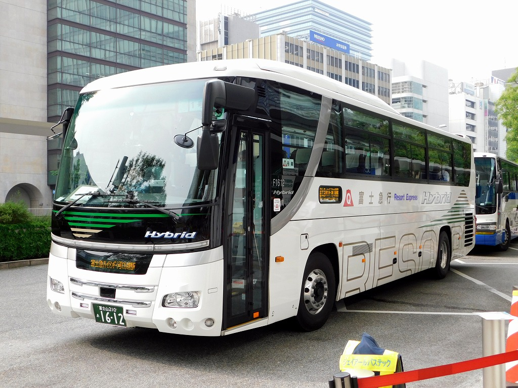 Fujikyu Yamanashi bus Hino S'elega Hybrid (QQG-RU1ASBR)